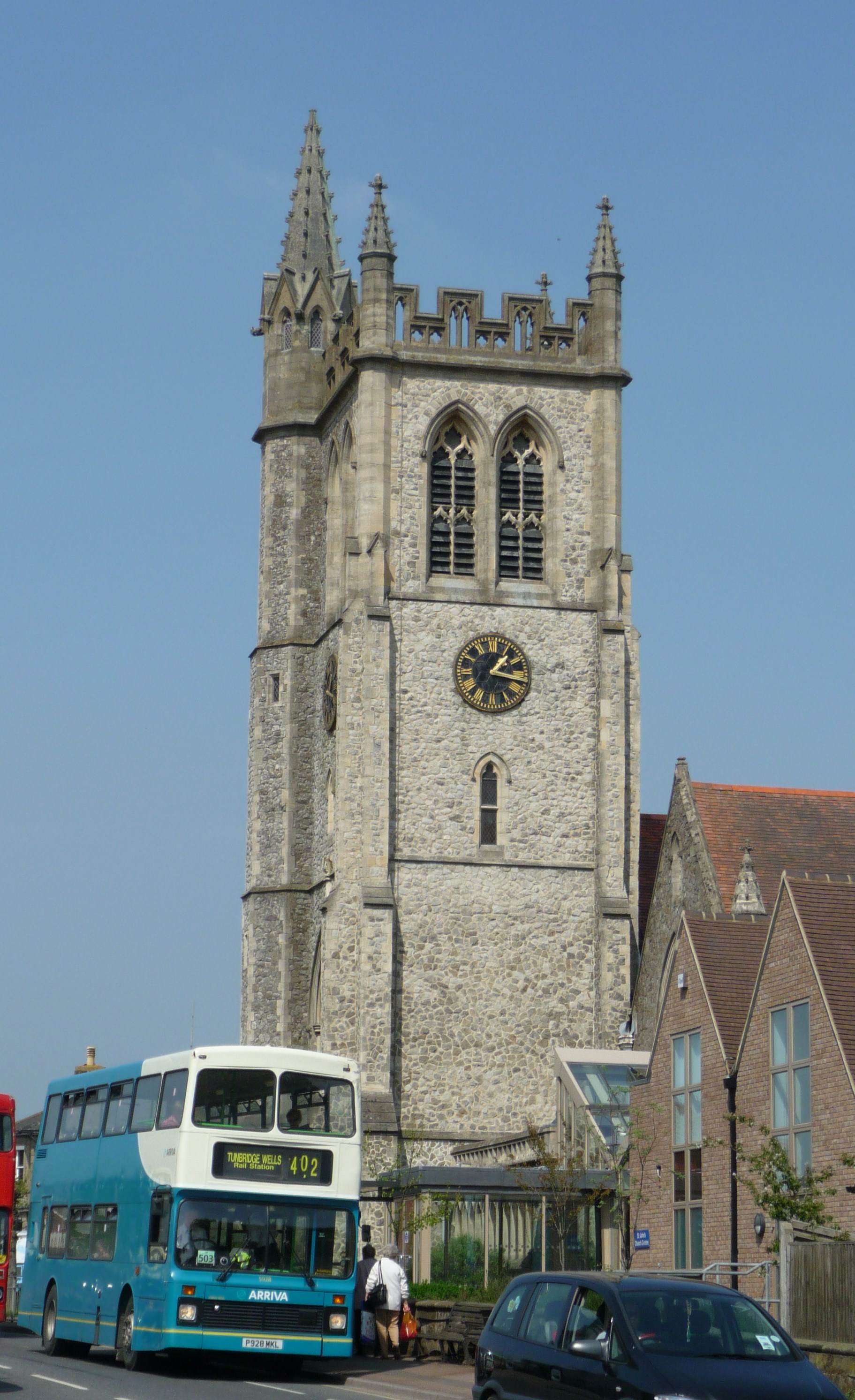 Arriva Kent & Sussex 5928 (P928 MKL), a Volvo Olympian/Northern Counties Palatine, in St John's Road, Tunbridge Wells, on route 402, setting down outside St John's parish church